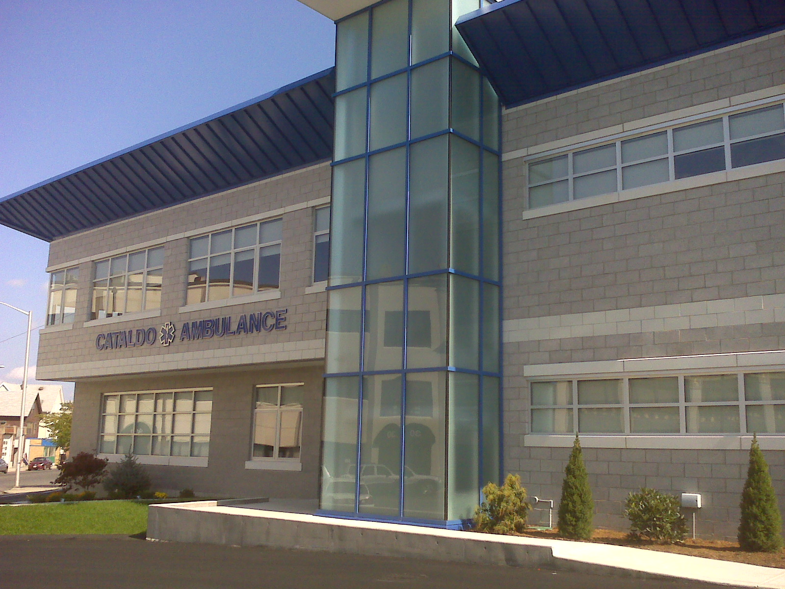 Cataldo Ambulance Service Malden Operations Center